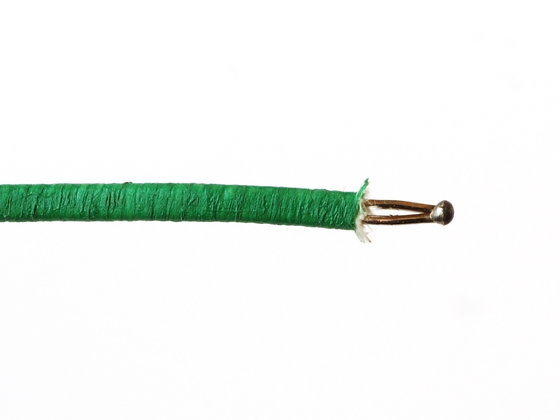 Type K thermocouple. IEC color code: green= +, white= -, green coating. Wire diameter 2x 0.5 mm, welding bead diameter app. 1.2 mm.